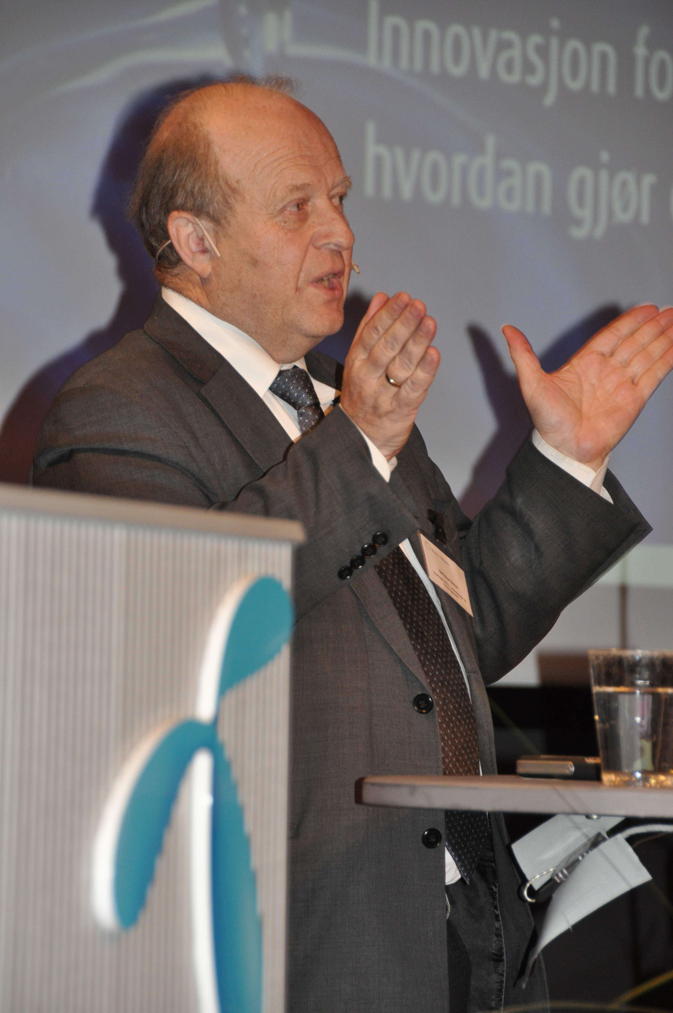 MP Odd Einar Dörum, Liberals (V), Norway